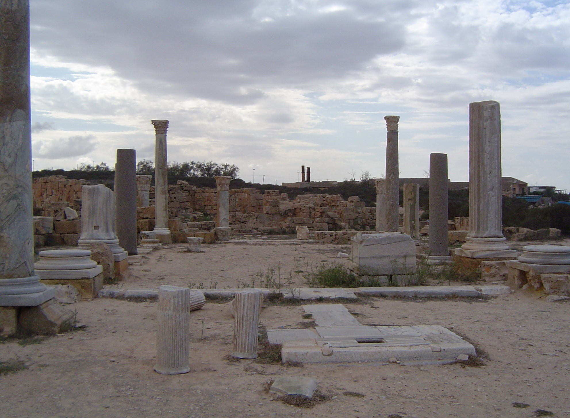 Remains of the Basilica of Justinian in Sabratha - Libya